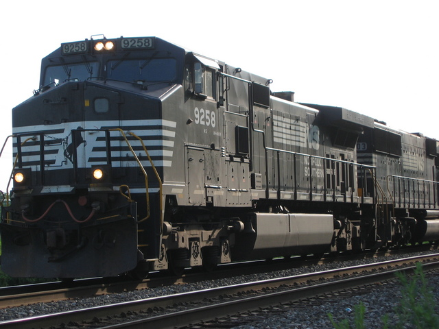 Norfolk Southern C40-9W #9258